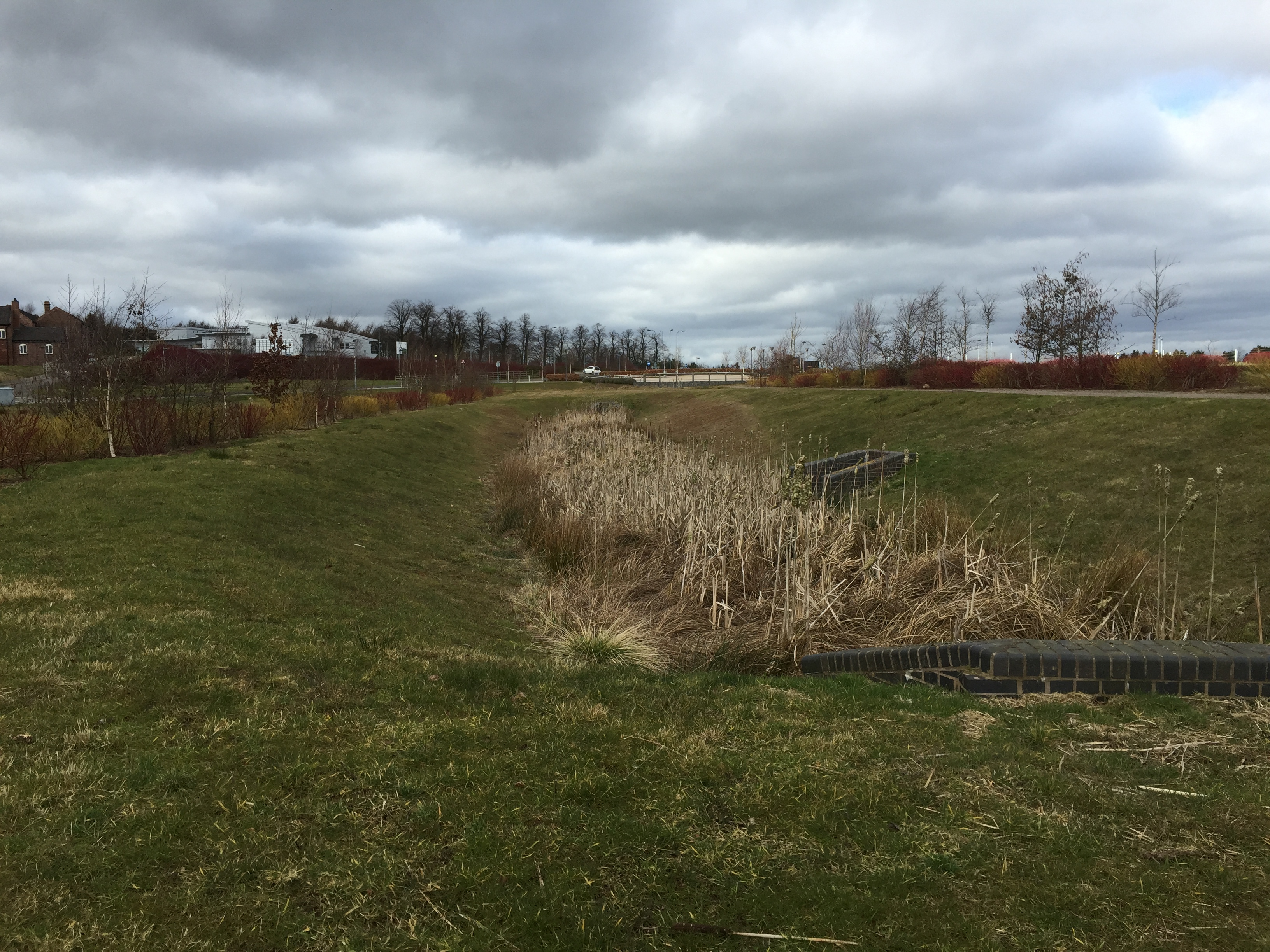 Ditch for Evacuation of Rainwater